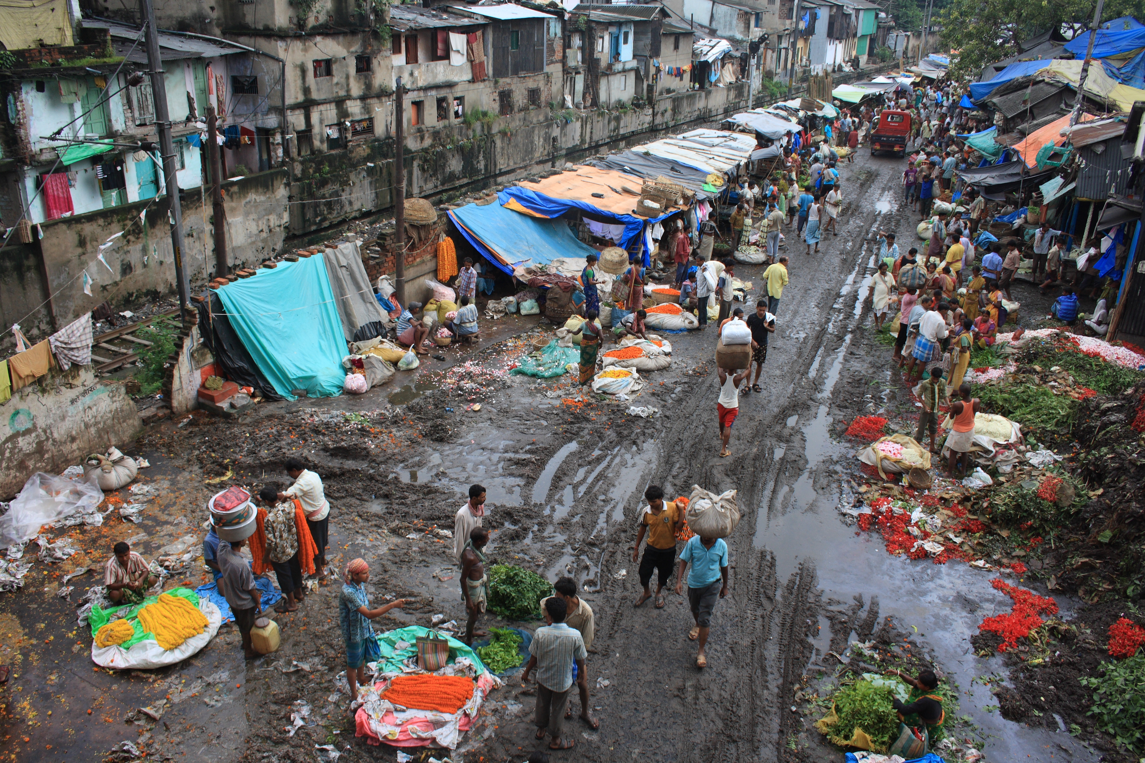 Vendors selling colorful flowers on the Flower Market in Kolkata below Howrah Bridge. The dark grey mud on the ground propably originates from rotten flowers that were not sold and accumulated over the years.